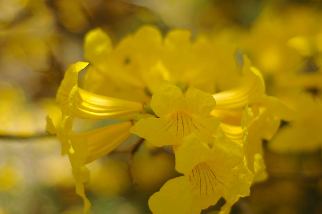 Detail of the flowers of the Tabebuia umbellata, taken by Dana John Hill, March 2006 in Gainesville, Florida.